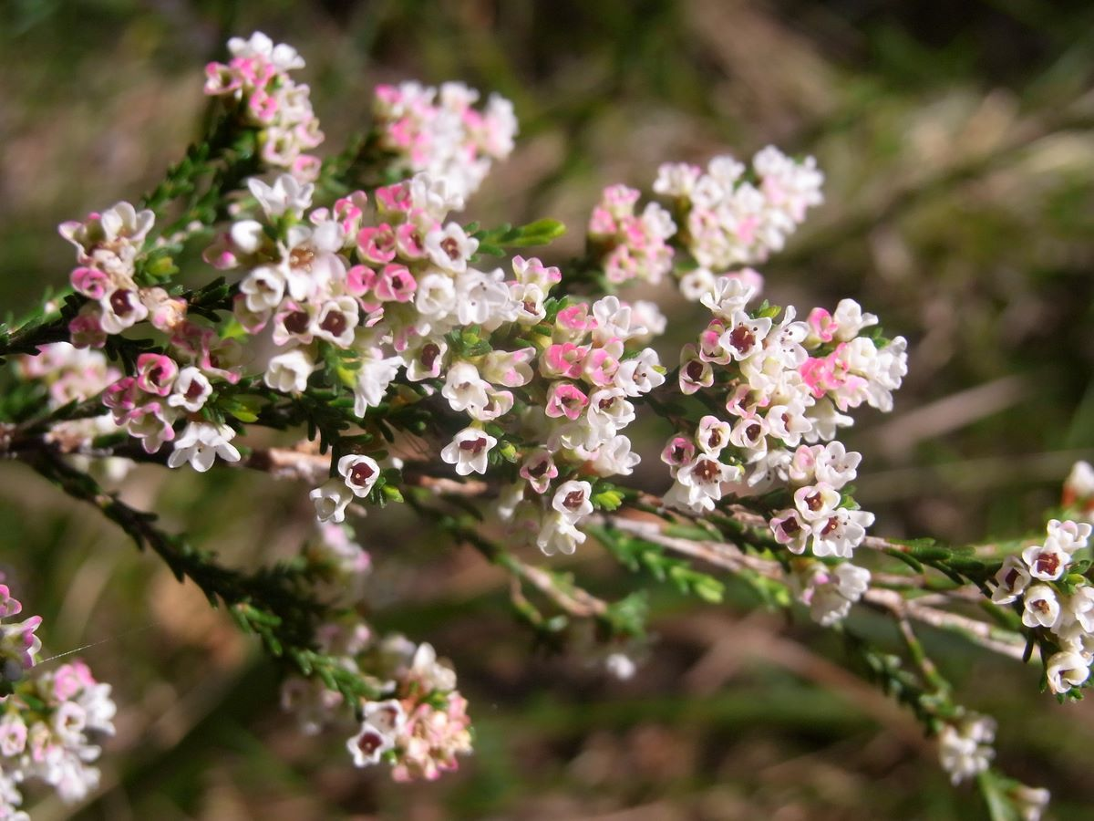 Micromyrtus ciliata, labelled at Stoney Range Gardens, Dee Why, Australia